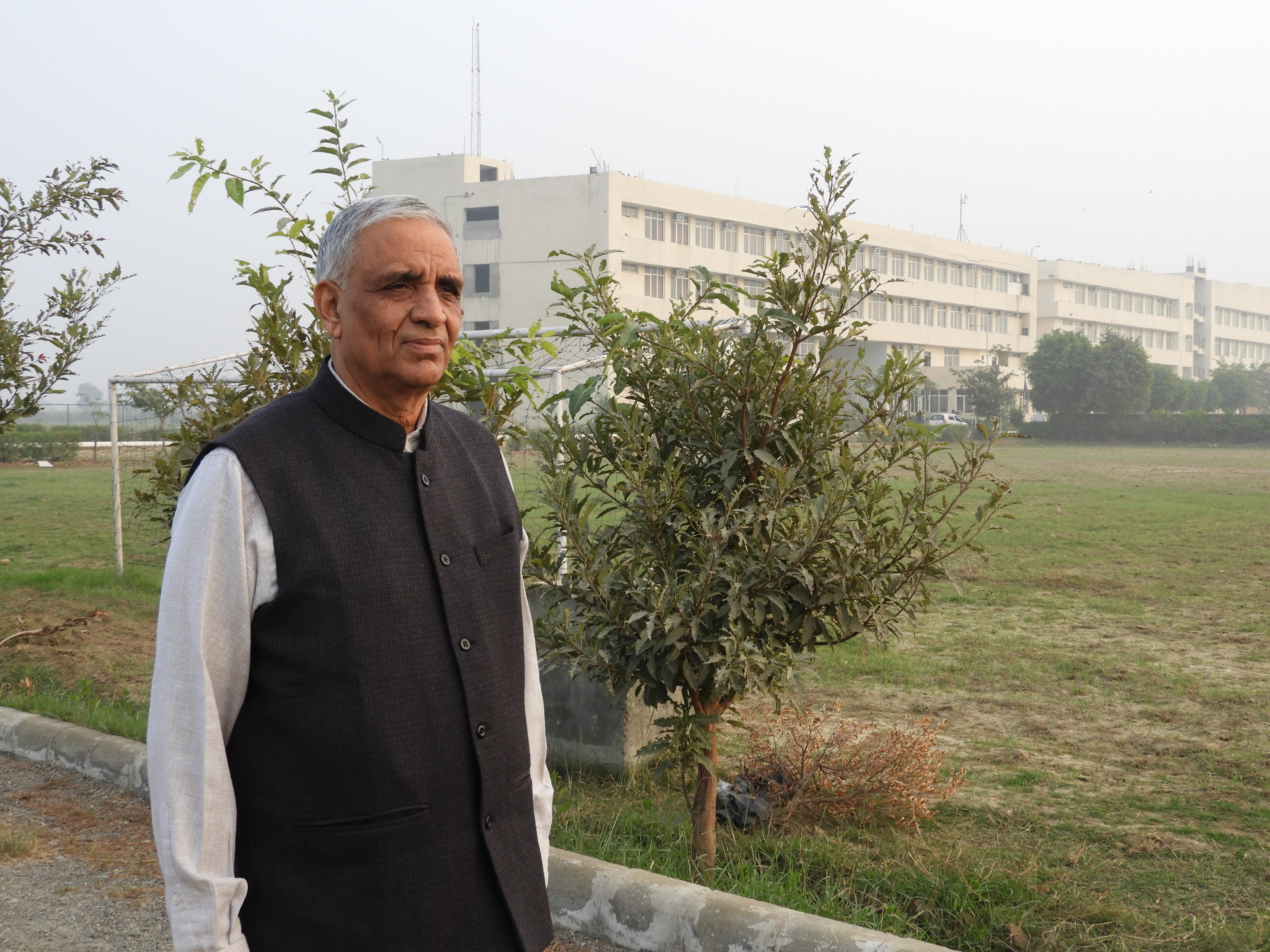 Prof. H.L. Verma, Vice Chancellor, Jagan Nath University, Bahadurgarh, Haryana